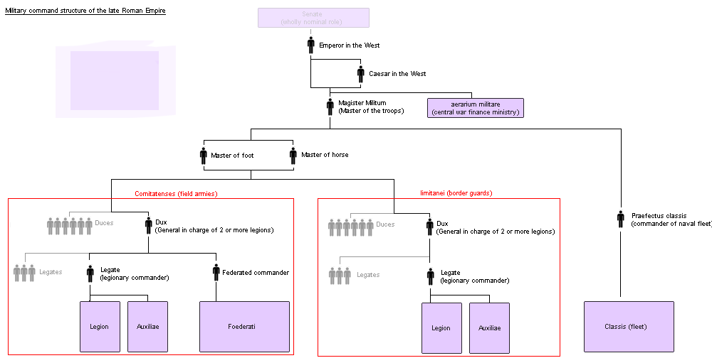 Author: Daniel Adams (me) I created this myself and release it to the public domain.